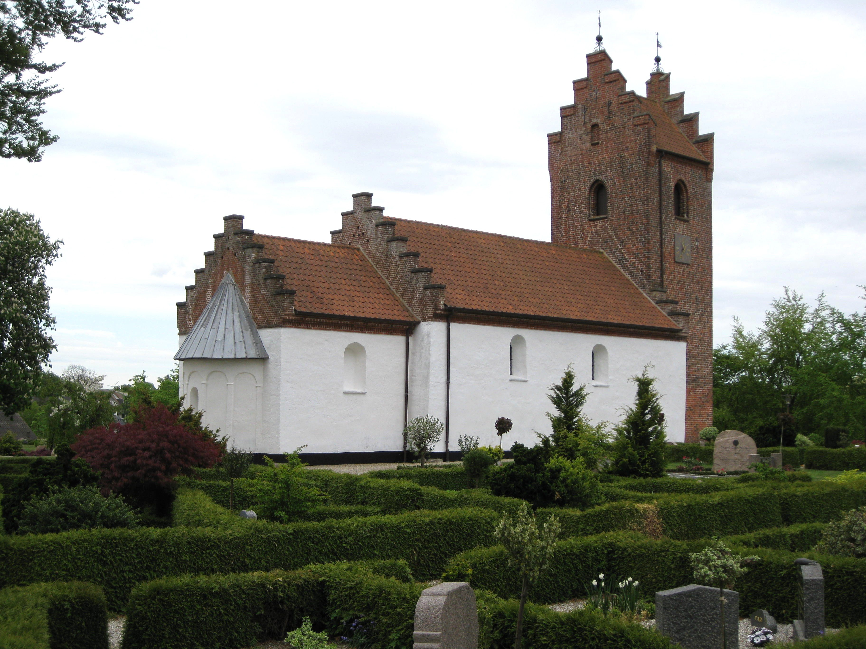 The church "Thorsø Kirke" in the small town "Thorsø". The town is located in East Jutland, Denmark.